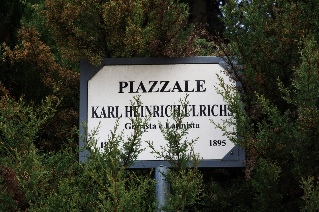 Street sign of Karl Heinrich Ulrichs Piazza in L´Aquila, Italy